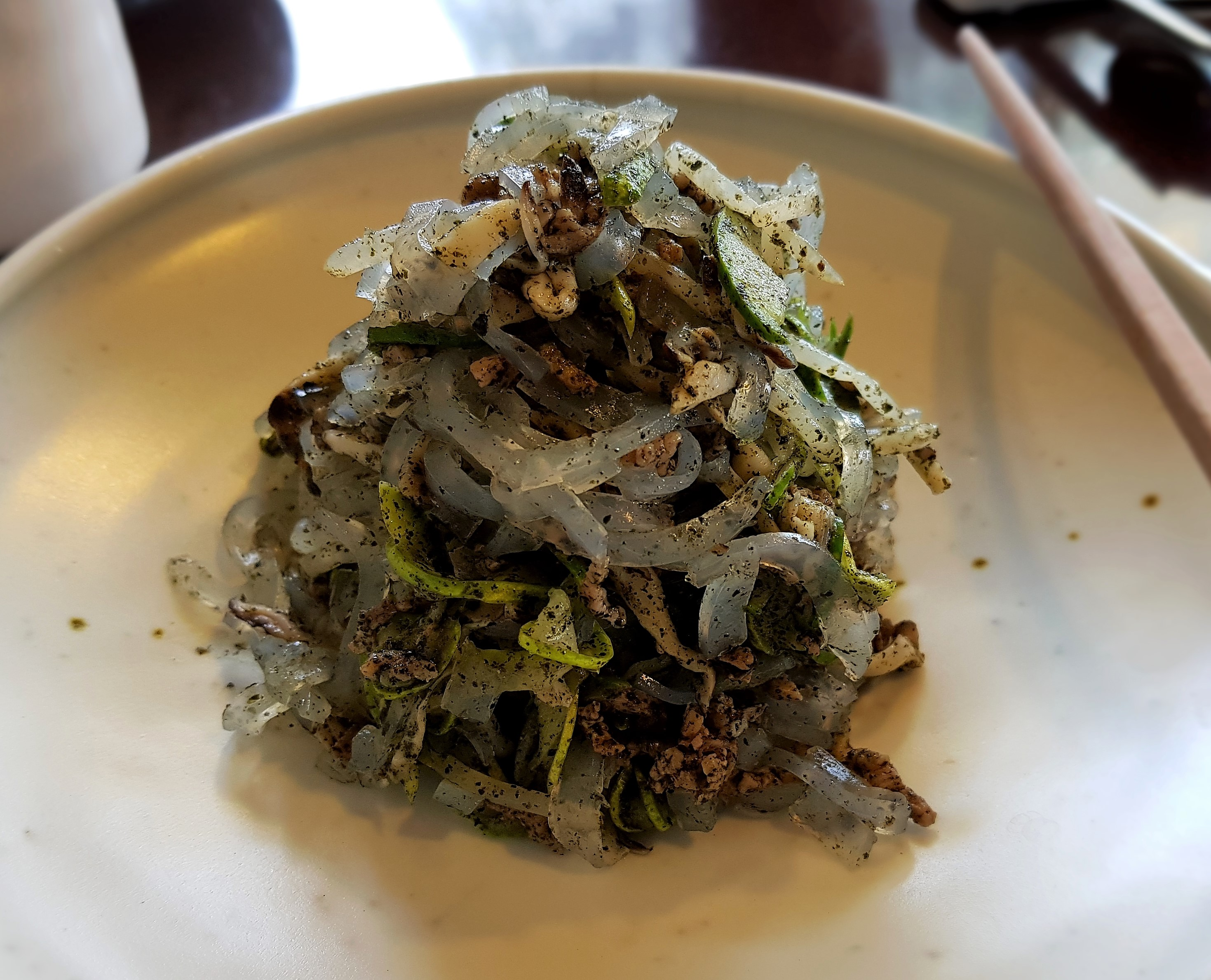 Korean Food Tangpyeongchae